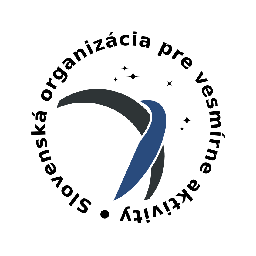 SOSA – z anglického názvu „Slovak Organisation for Space Activities“ je občianske združenie, ktoré: Popularizuje vesmírny výskum na Slovensku Zasadzuje sa o vstup Slovenska do Európskej vesmírnej agentúry ESA Organizuje verejné prednášky a workshopy pre všeobecné zvyšovanie povedomia o potrebe rozvoja kozmického výskumu a priemyslu na Slovensku Za týmto účelom vytvárame sieť kontaktov so strednými a vysokými školami, výskumnými ústavmi a priemyselnými firmami so záujmom a potenciálom pôsobiť na poli vesmírneho výskumu a obchodu.